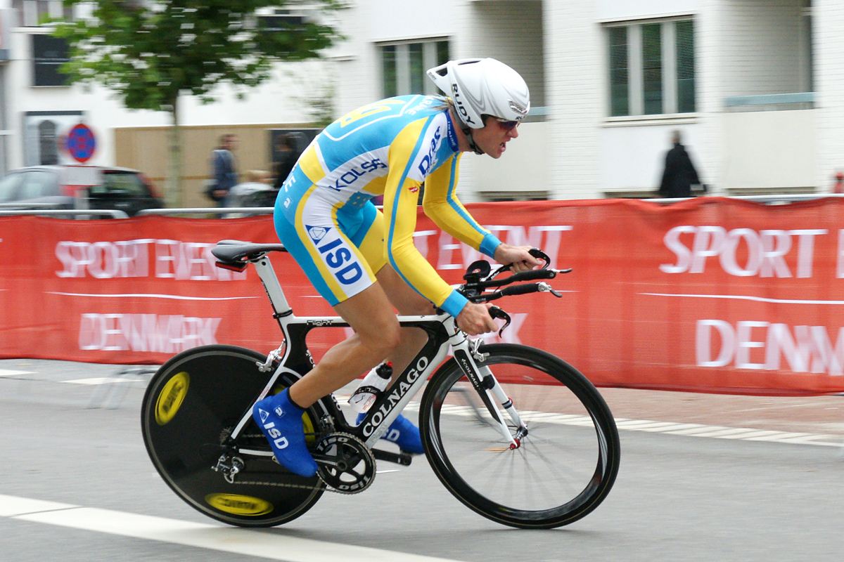 2011 UCI Road World Championships – Men's time trial - Vitaliy Popkov, Ukraine